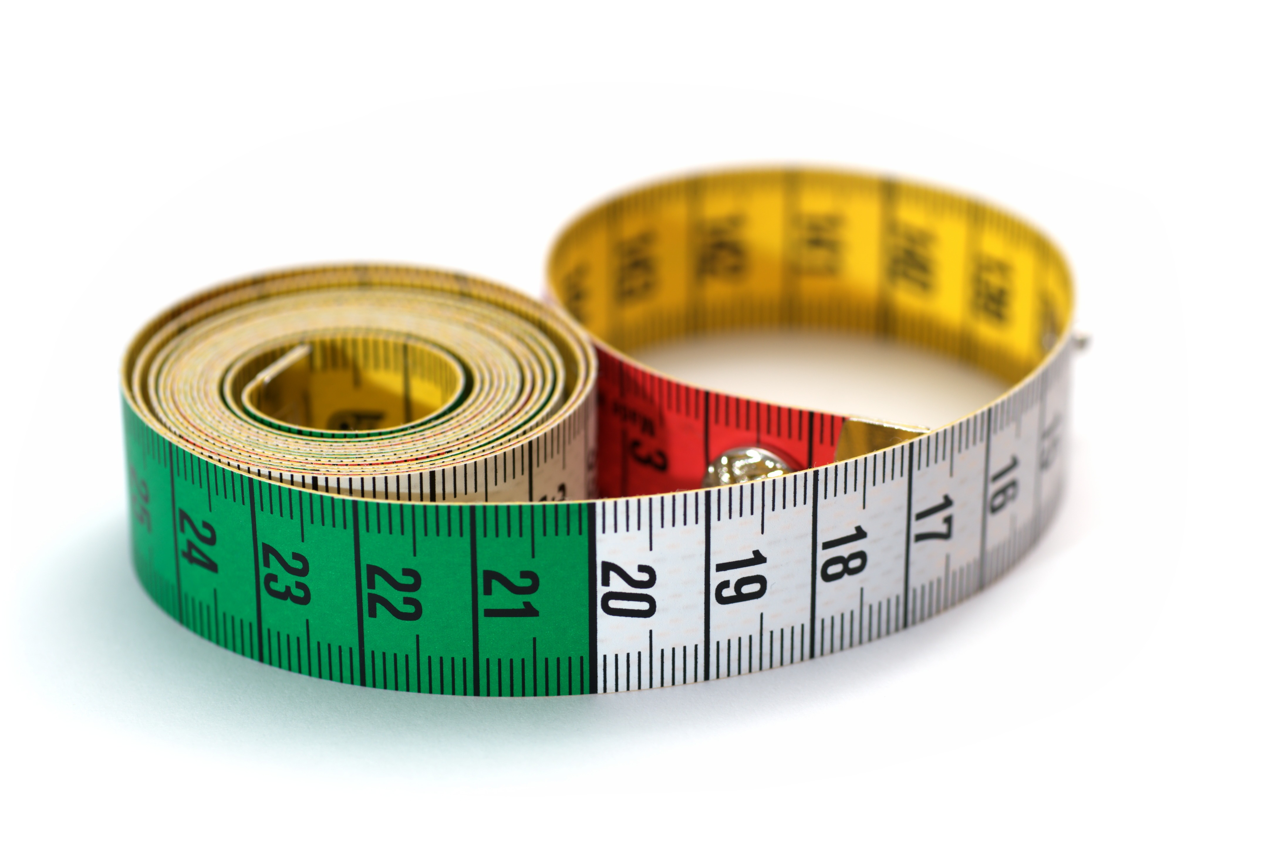 A tape measure.